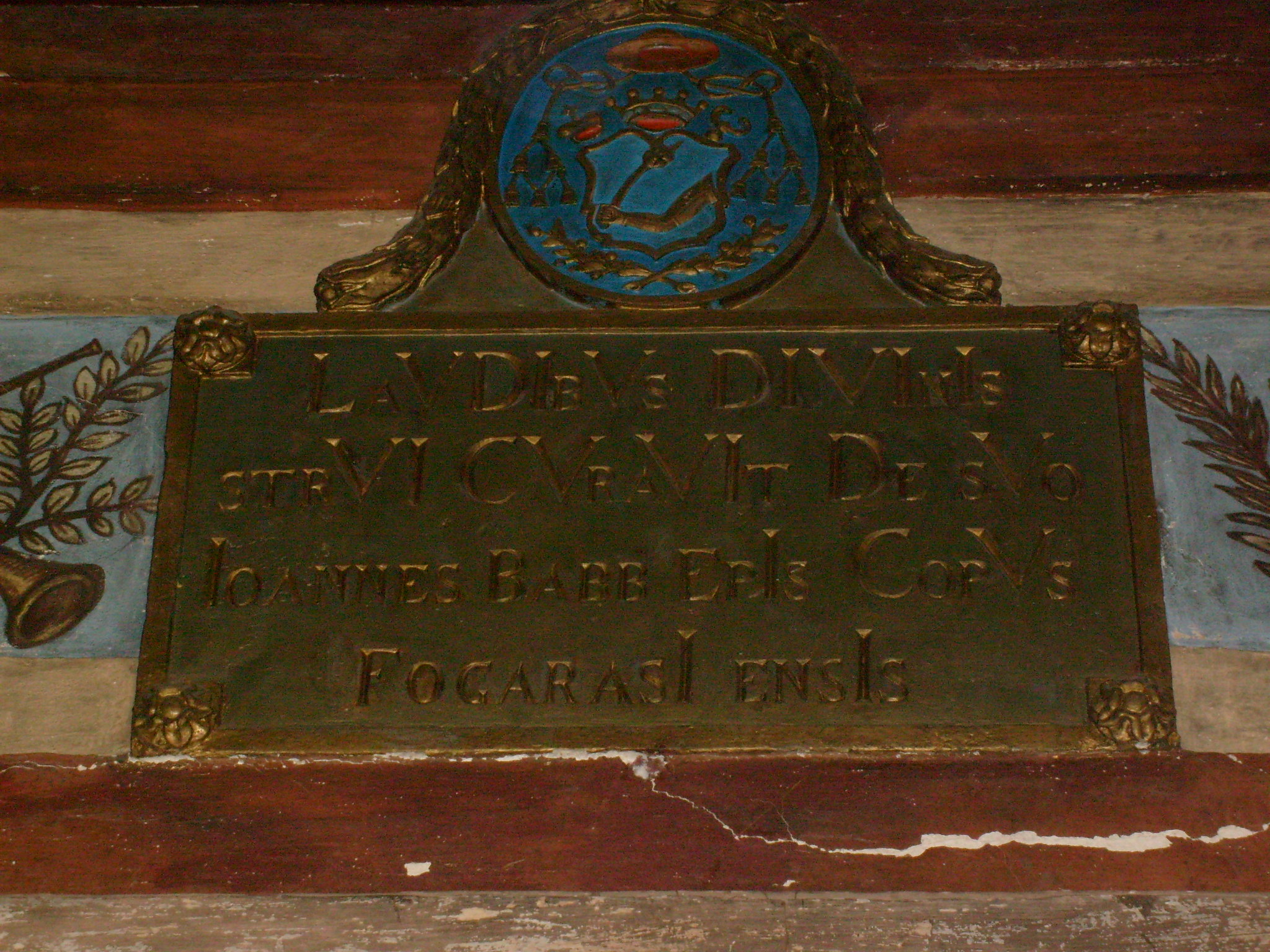 Bishop Bobs coat of arms.